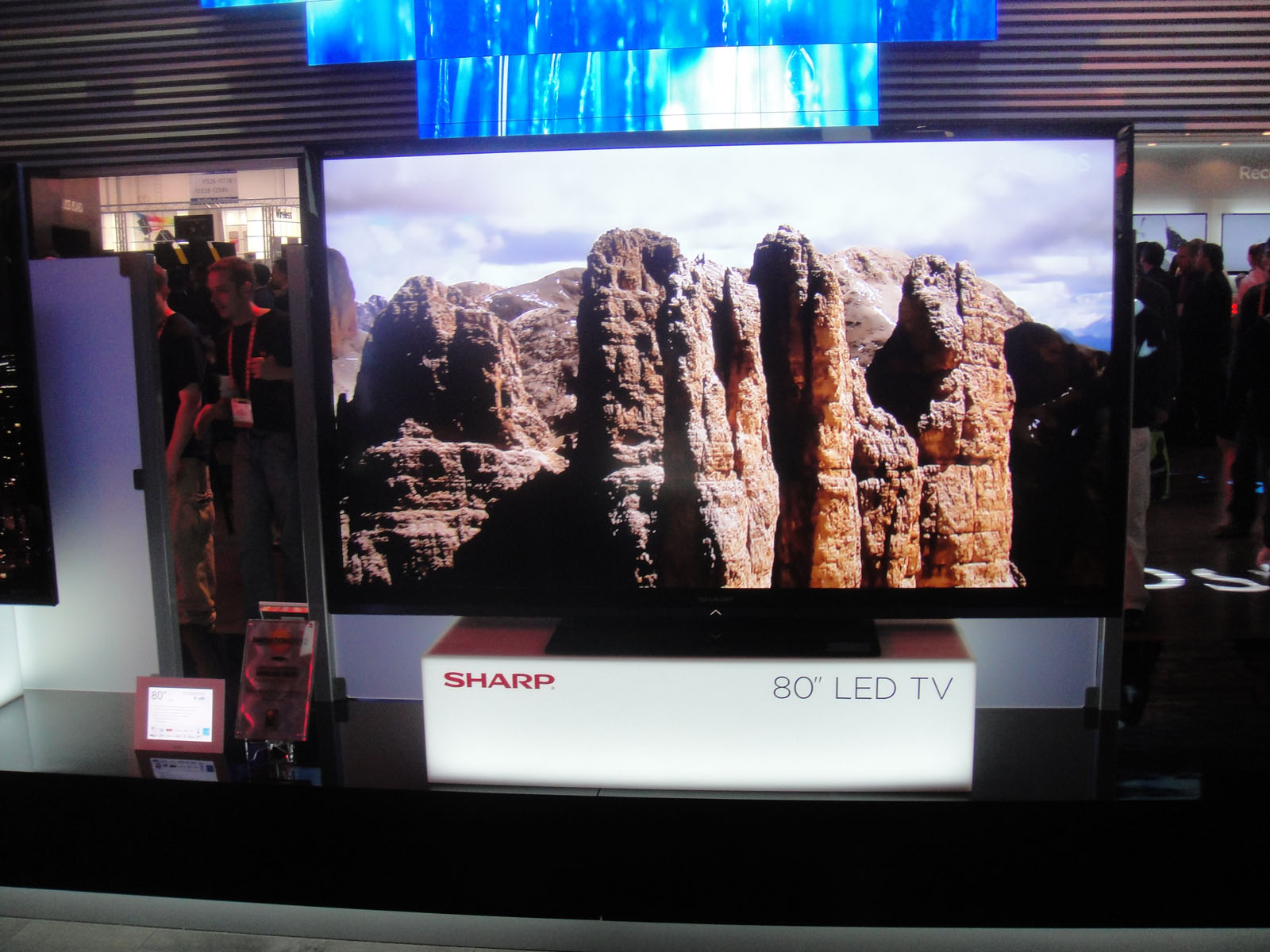 CES 2012 - Sharp 80" LED TV